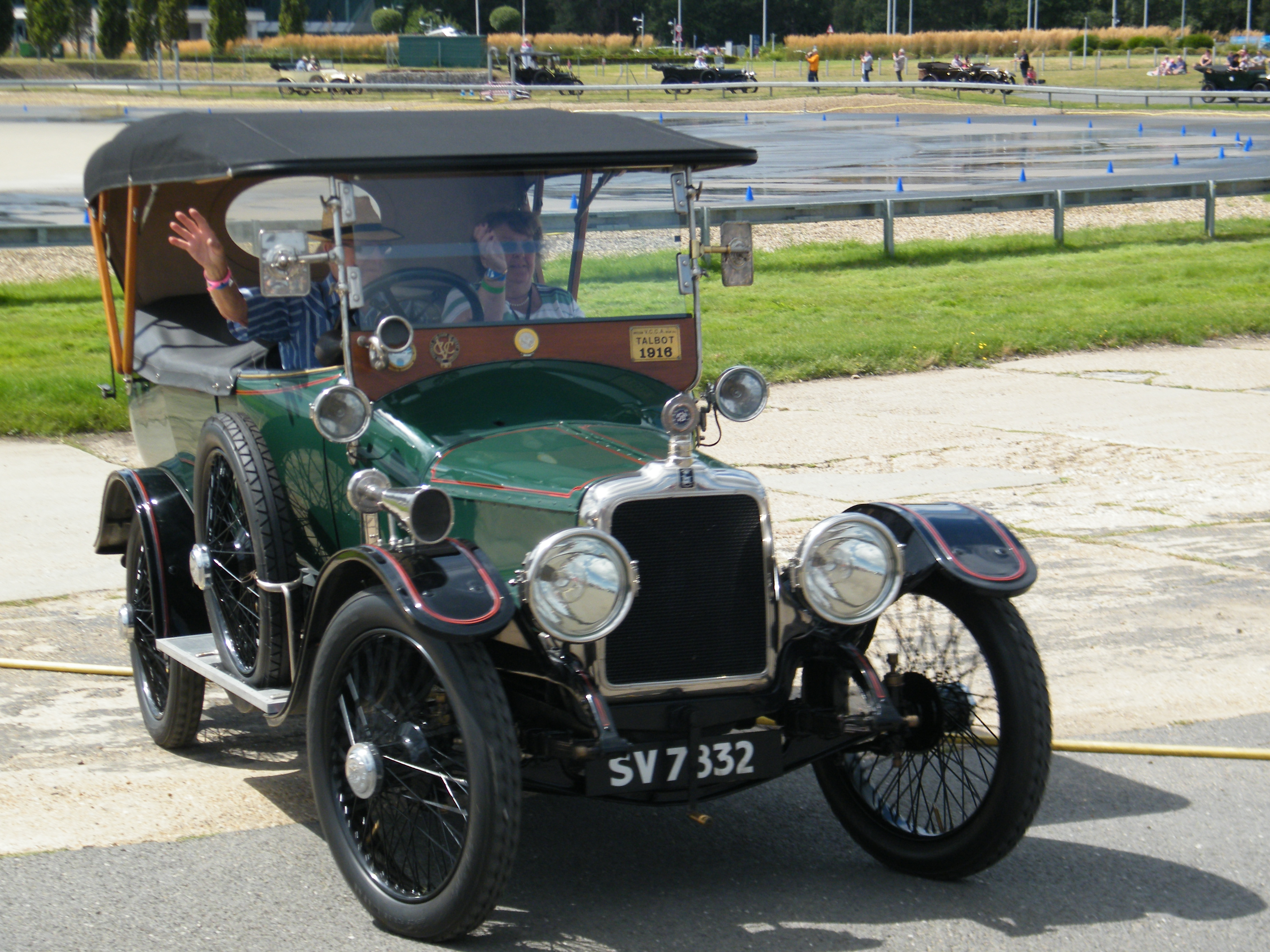 1916 Talbot 12 hp Colonial Tourer chassis No.: 7424 ~ engine No.: 25 4-cylinders, 2409 cc GW100 Cavalcade at Mercedes-Benz World - Back to Brooklands